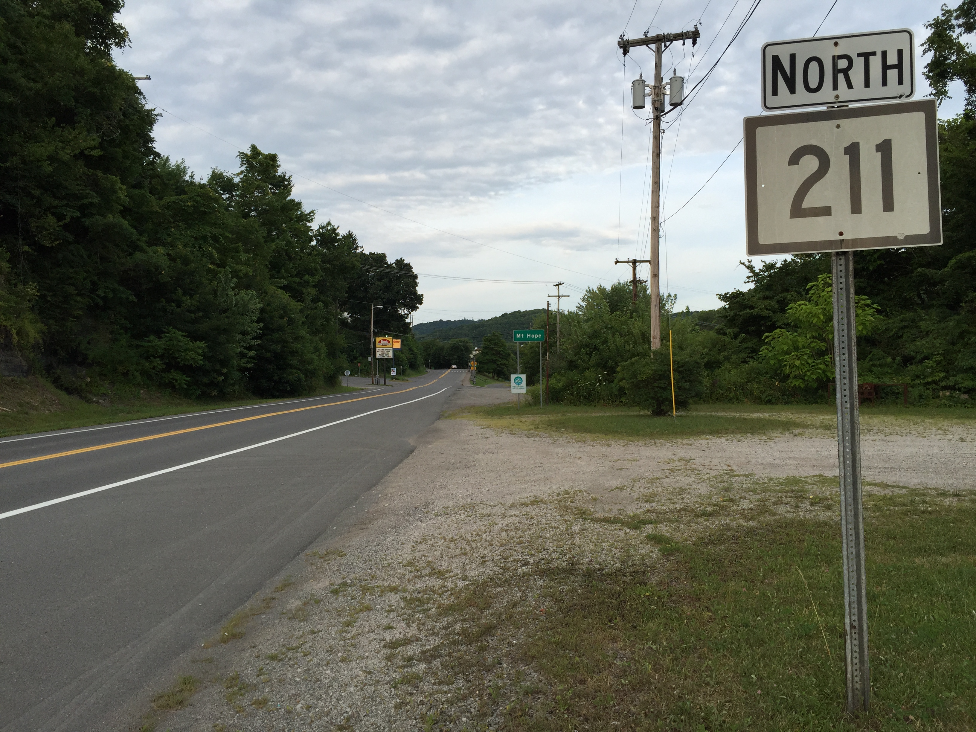 View north along West Virginia State Route 211 (Main Street) at West Virginia State Route 16 in Mount Hope, Fayette County, West Virginia